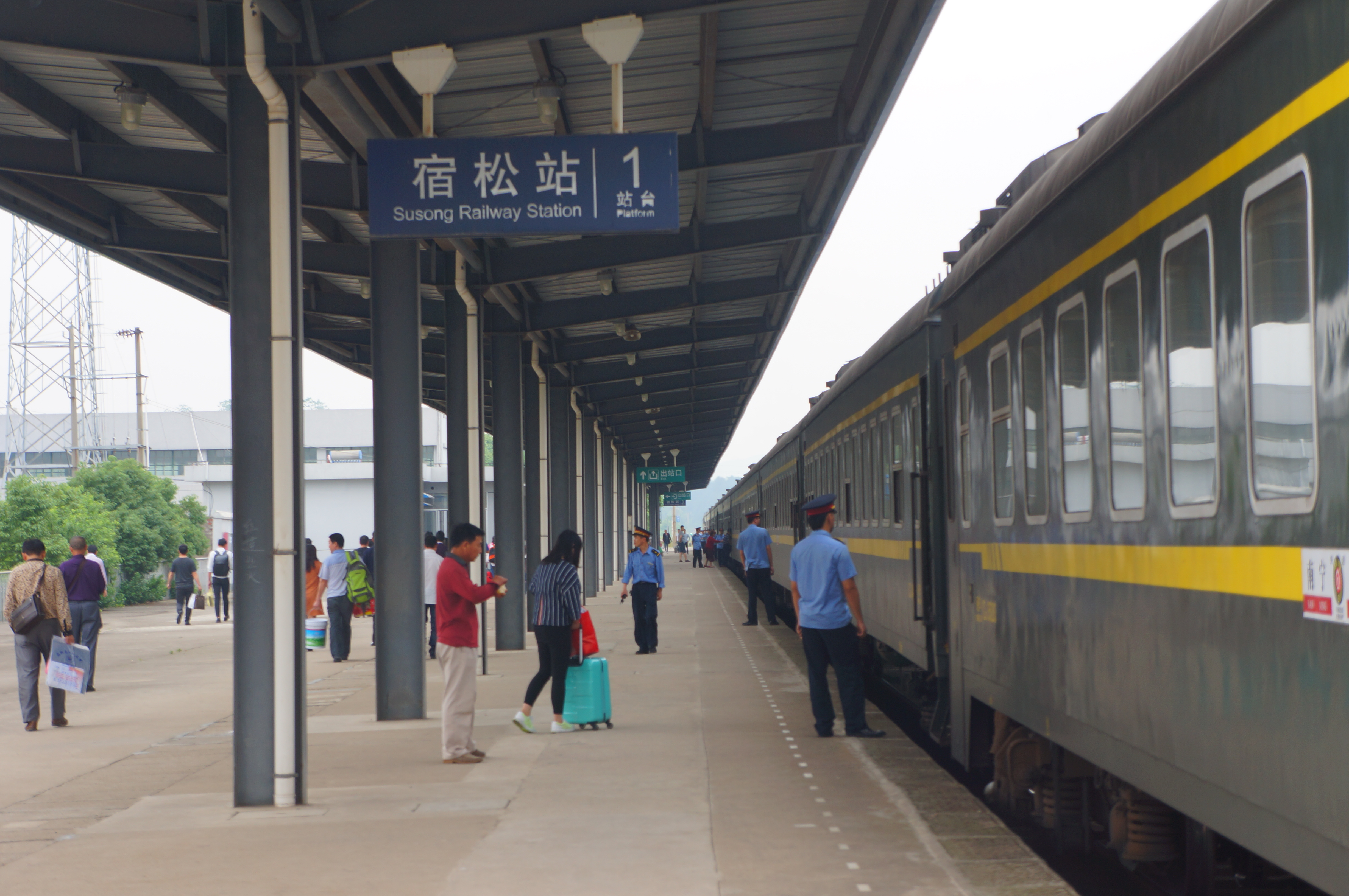 201705 Platform 1 of Susong Station. I have no idea why does SR treat so well on this station instead of Huangmei? Or can we infer something by looking at some SR stations in Henan Province?